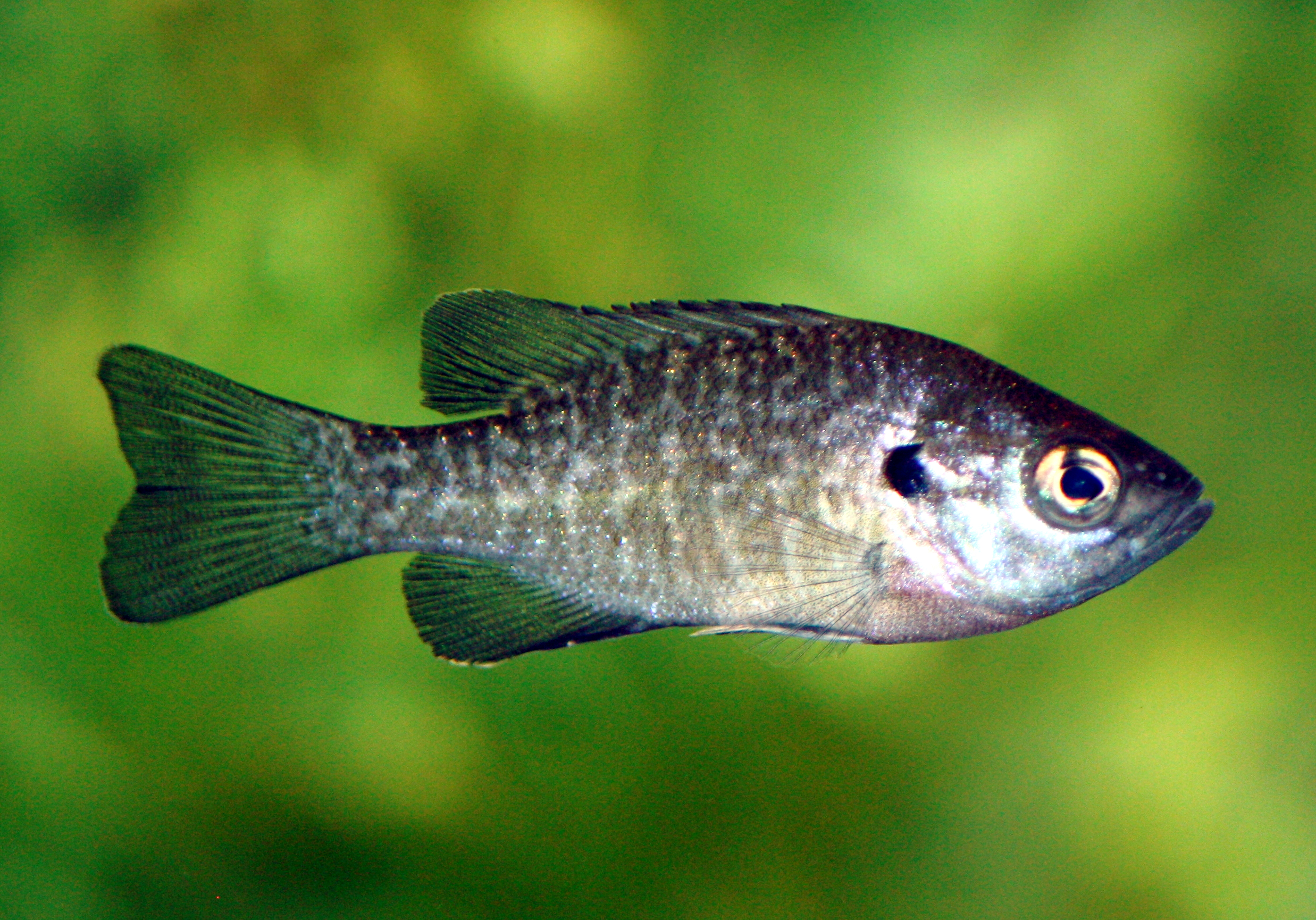 blue gill Lepomis_macrochirus at the Louisville Zoo